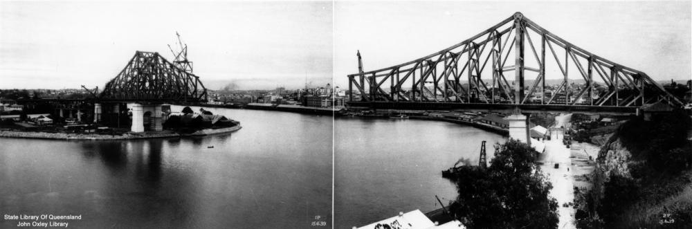 Incomplete Story Bridge, Brisbane, 1935. The Story Bridge over the Brisbane River between Kangaroo Point (on the left) and Fortitude Valley (on the right), during construction in 1935.